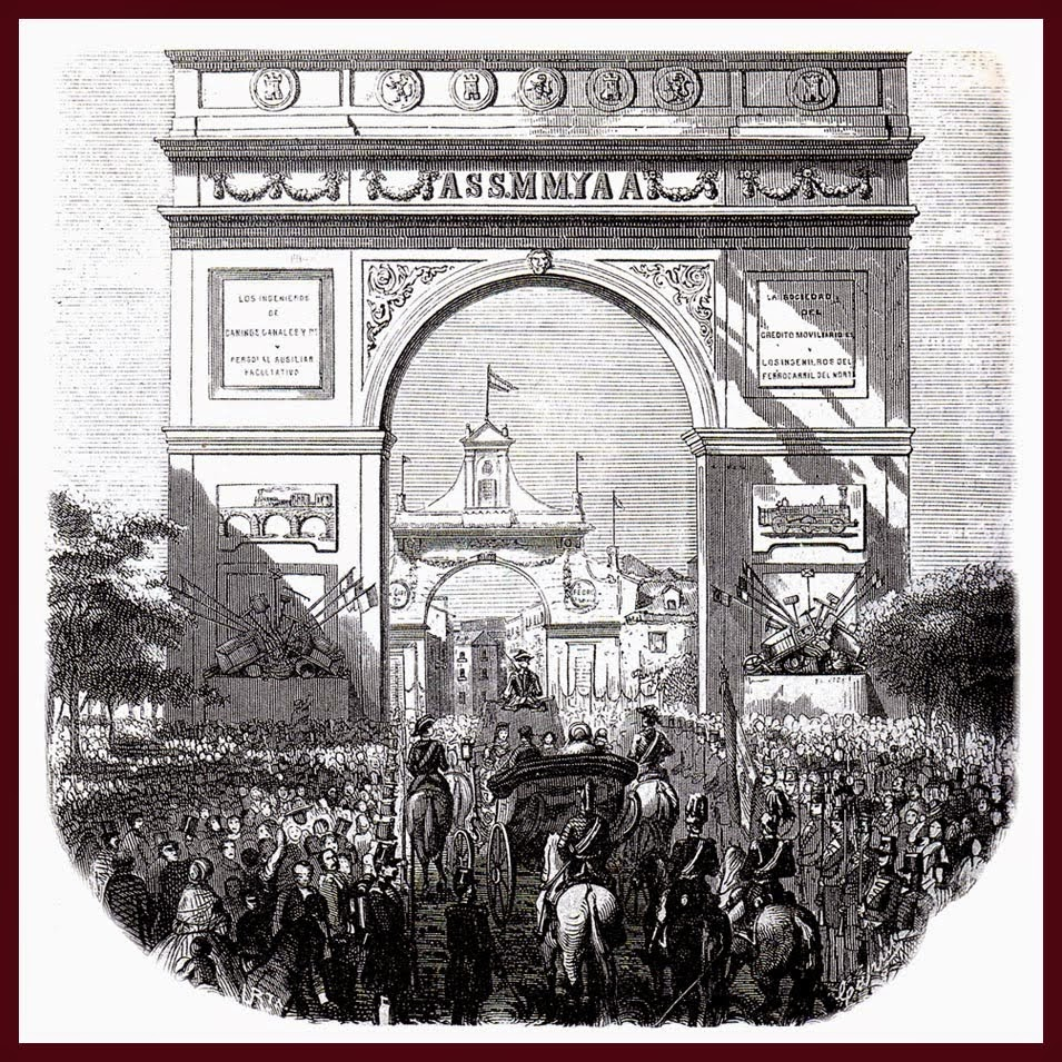 During festivities organized to welcome Queen Elizabeth II in 1858, with the inauguration of railway works in Valladolid, it rose a big Ephemeral architecture's triumphal arch, on land occupied currently by Plaza de Zorrilla. Back it can see Puerta del Campo.